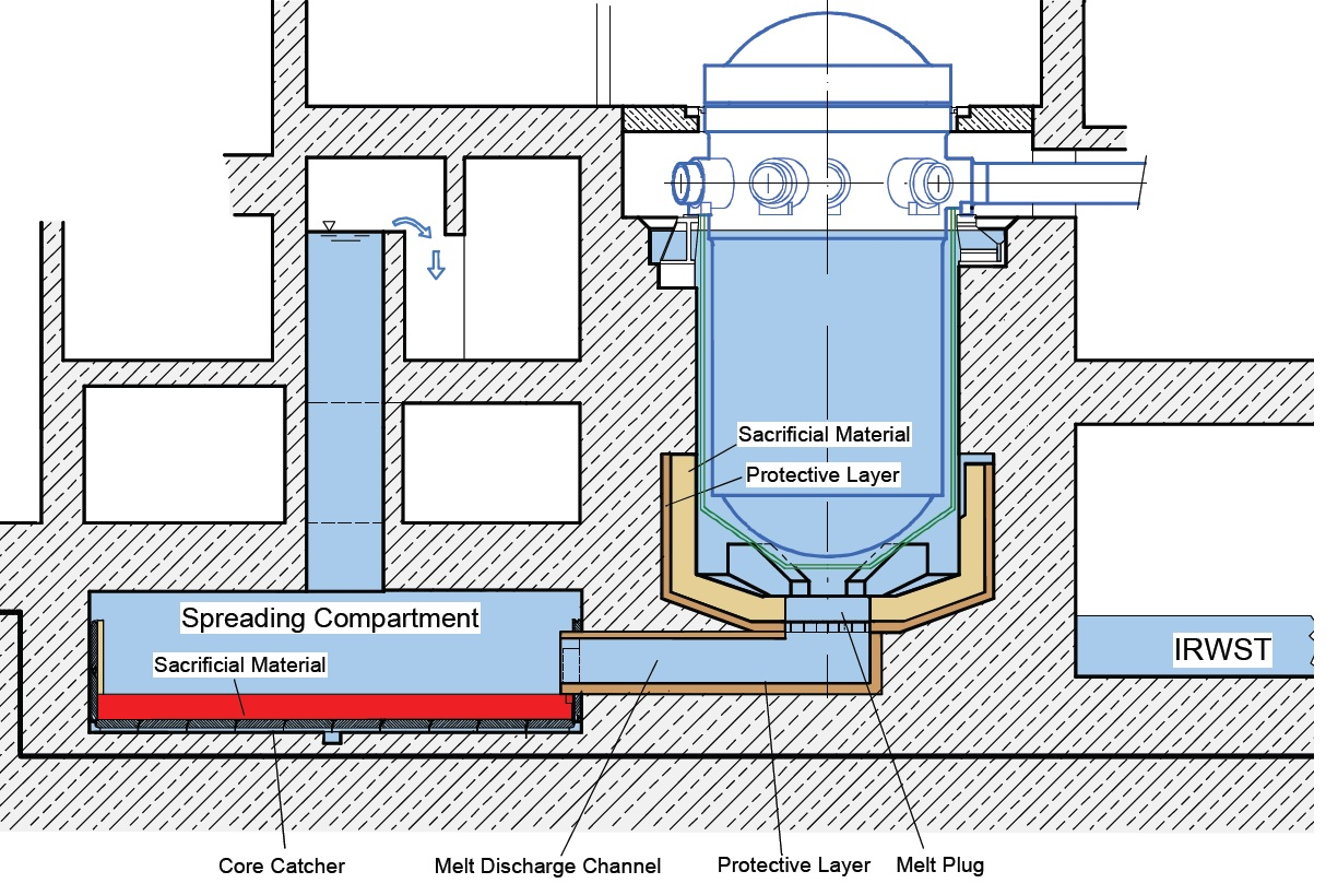 Active flooding of core catcher and reactor pit by CHRS